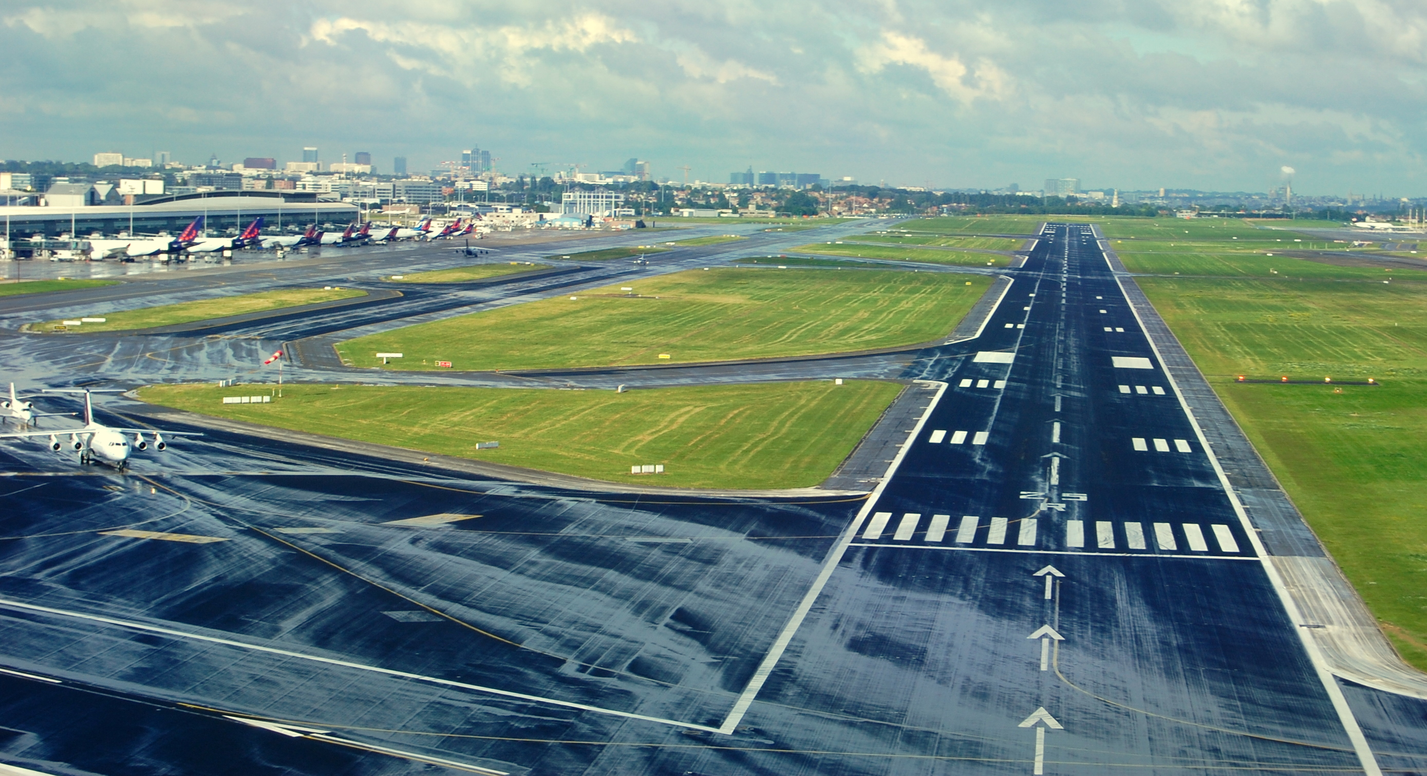 View of Brussels Airport while landing on runway 25R